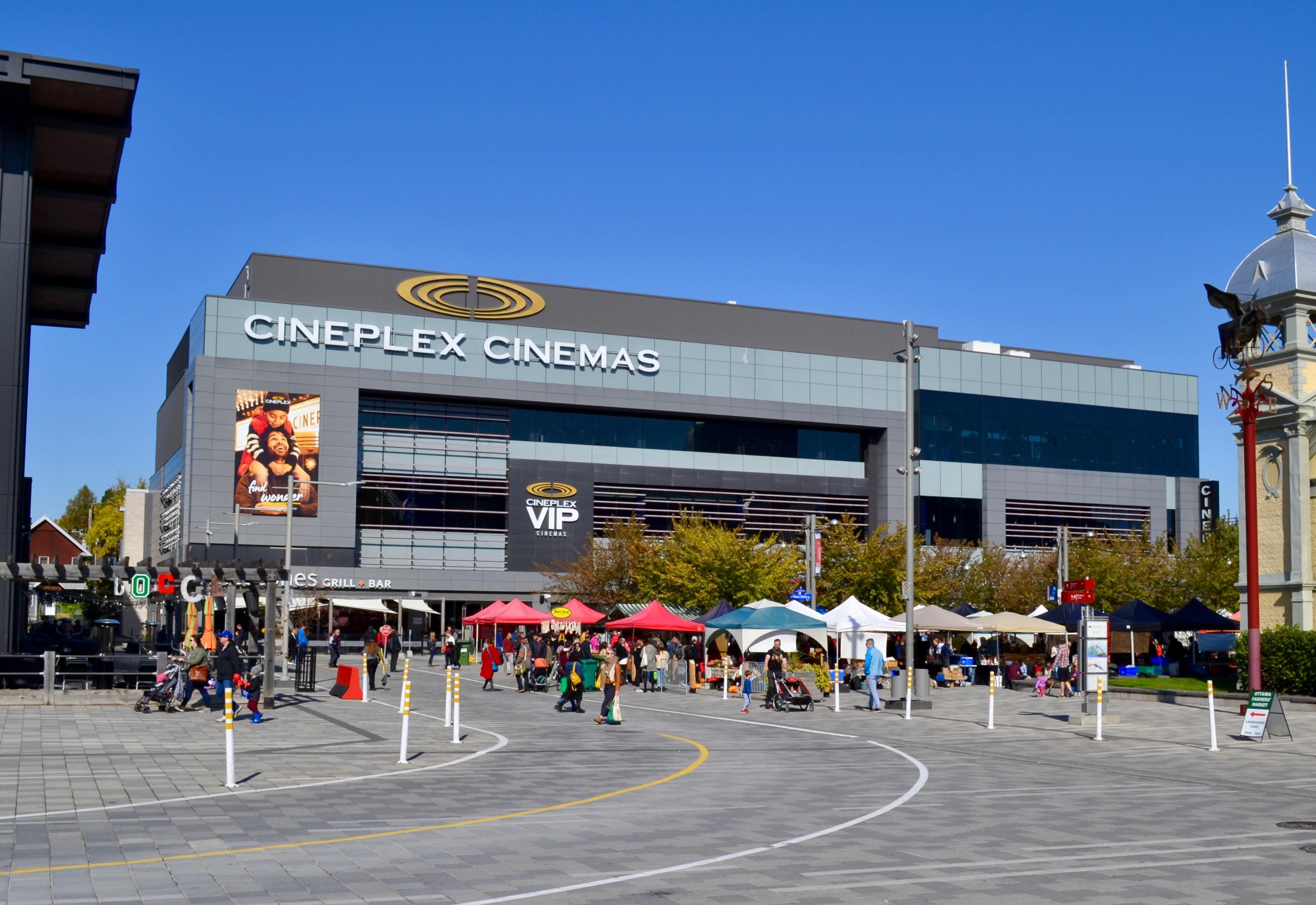 Lansdowne Park farmers market in mid-October 2019